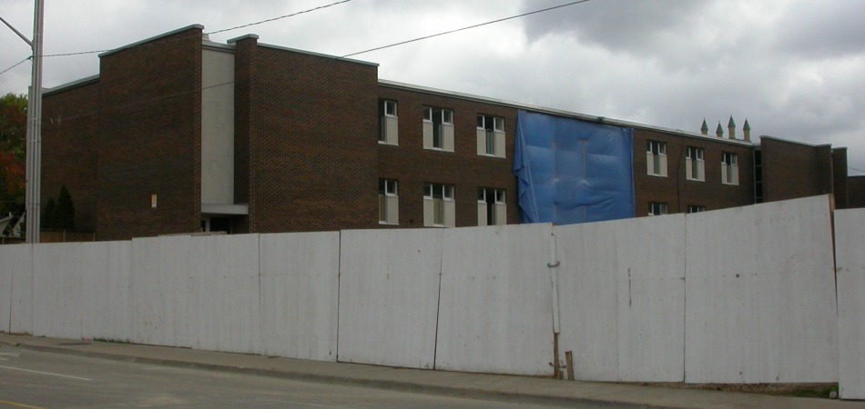 A building of the old St. Mary's High School in Kitchener, Ontario being demolished.